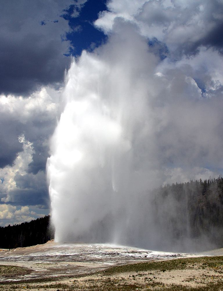 Old Faithful, Yellowstone-Nationalpark